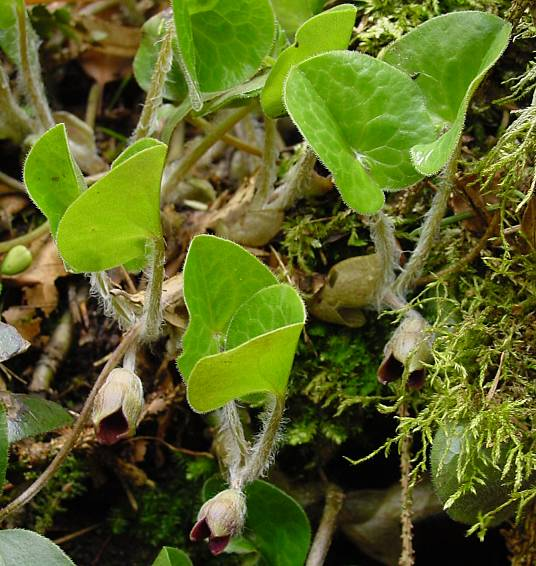 Asarum europaeum with flowers